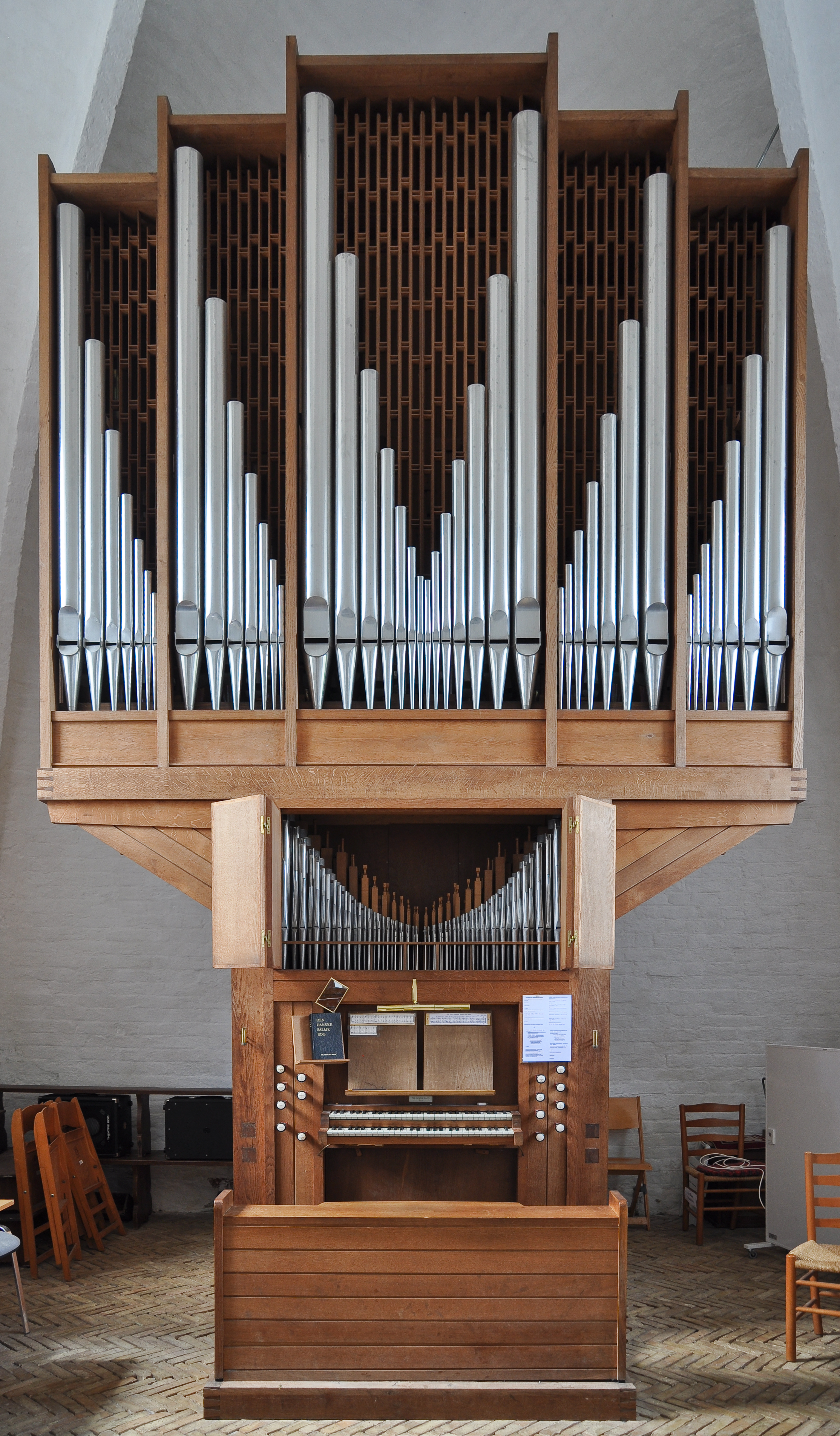 Organ in Tranebjerg Church (Samsø Municipality, Denmark).